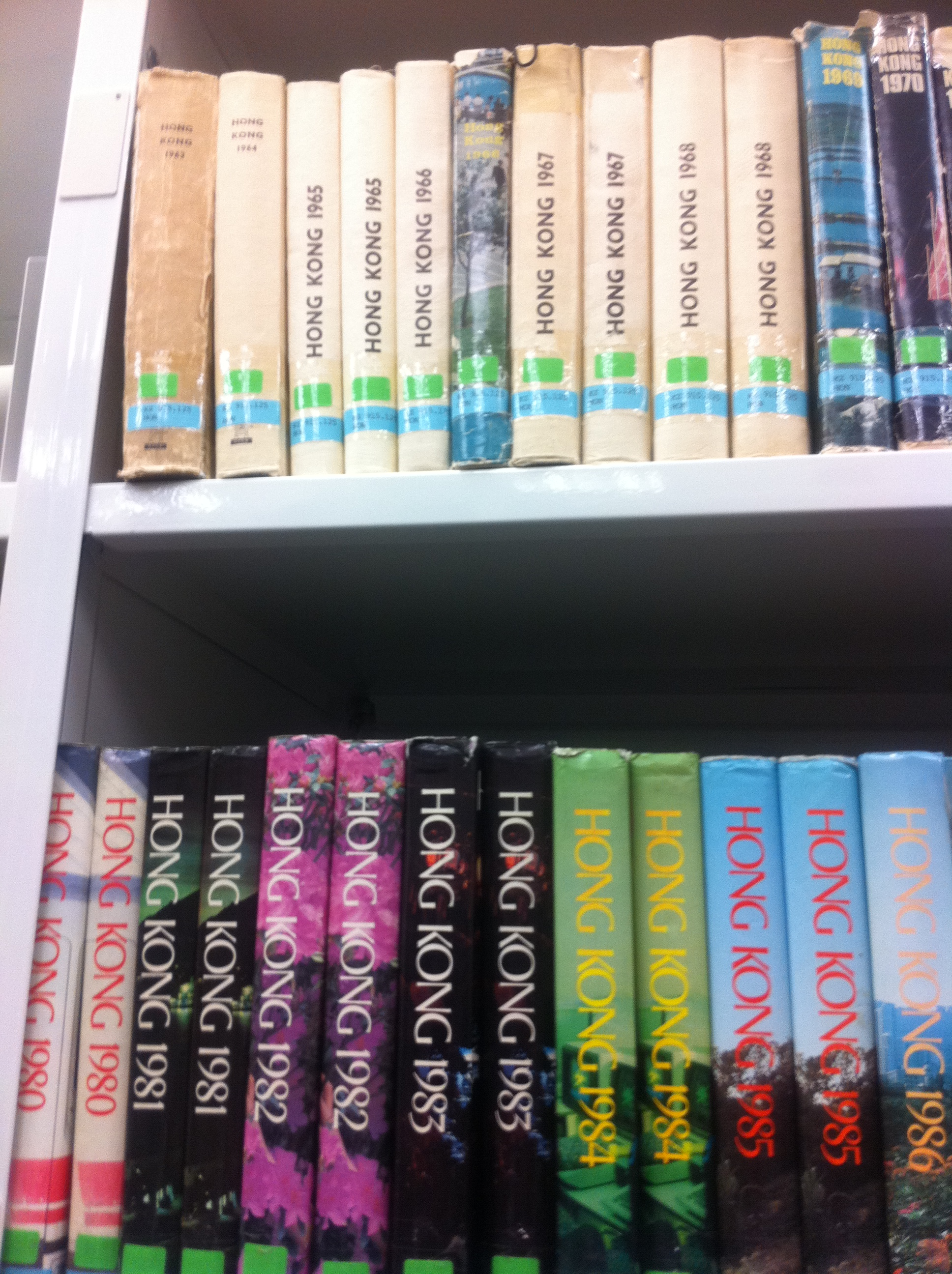 香港特別行政區高等法院圖書館藏書